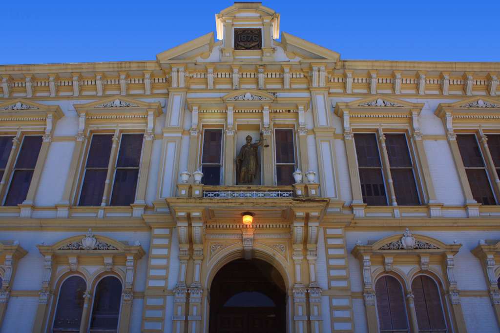 Virginia City, Nevada, USA, Storey County Courthouse, 1876